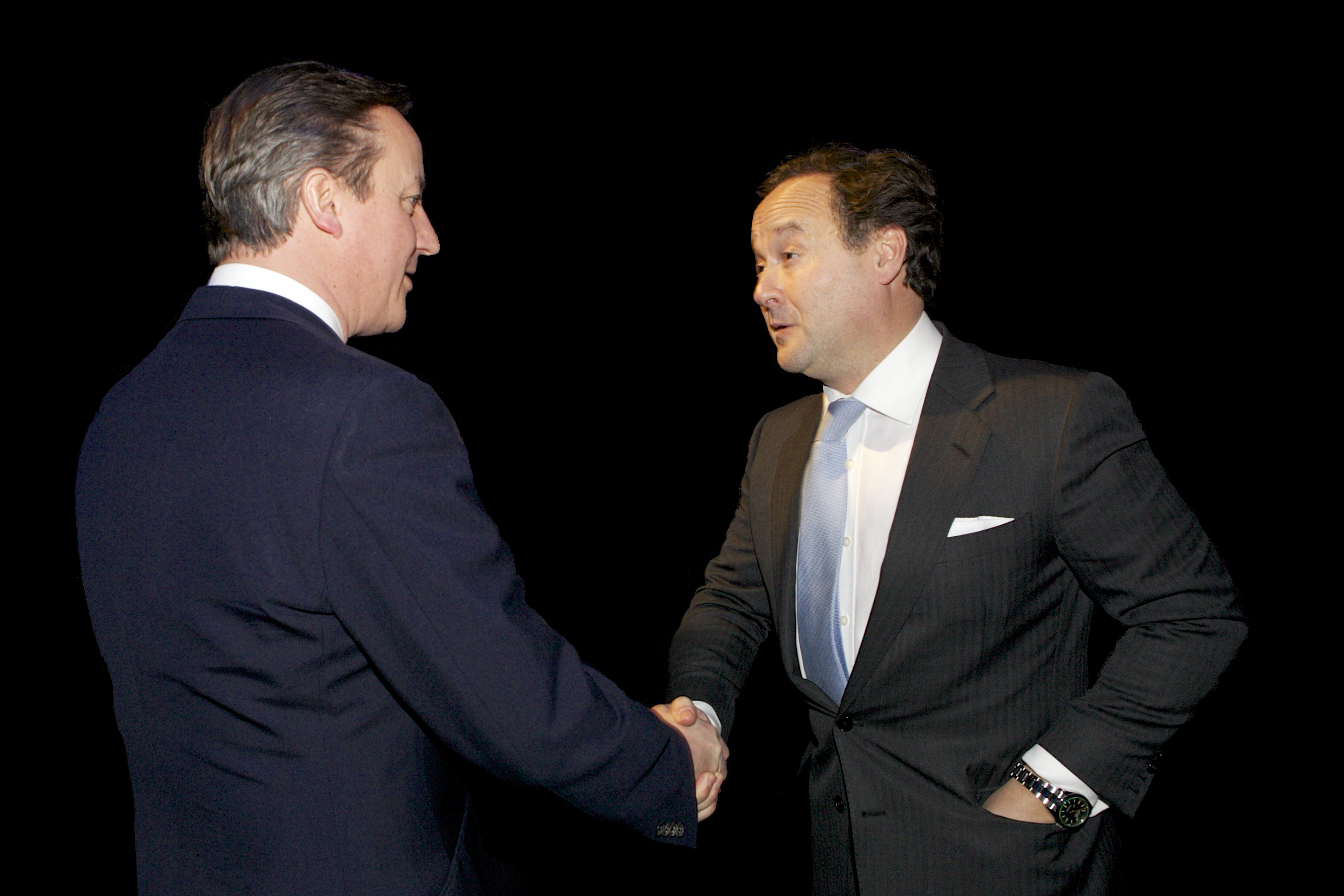 an image of Mr Serrano and the PM